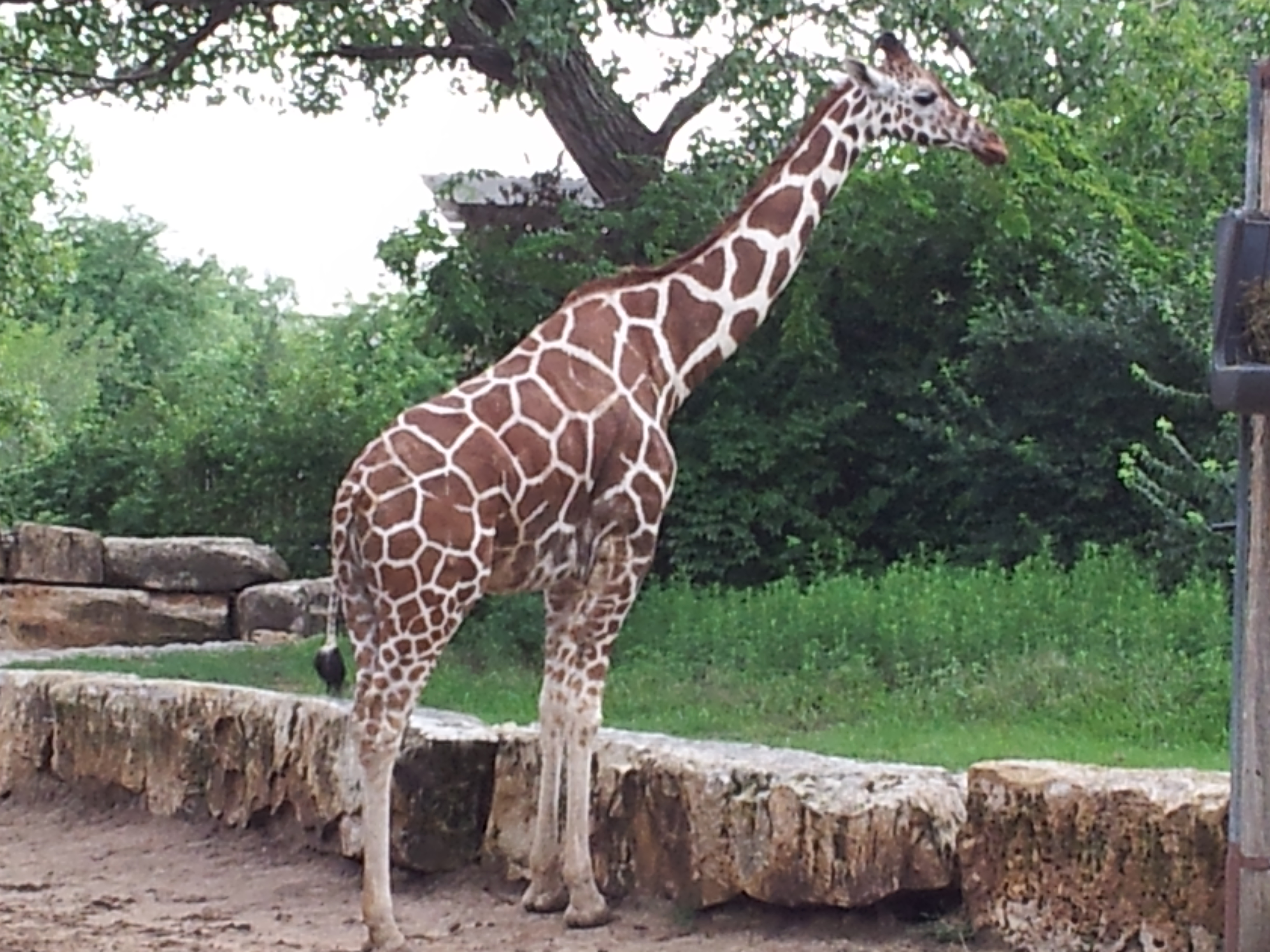 Giraffe at the Sedgwick County Zoo 2013